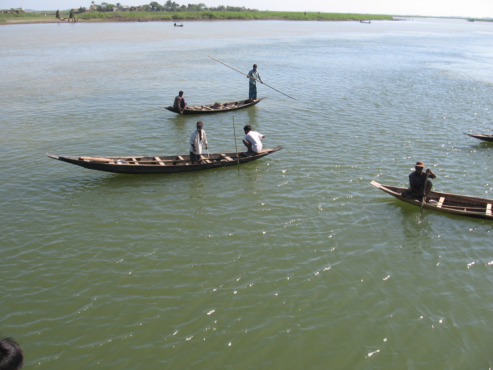 With water all aeound boats are the only means of transport between island villages